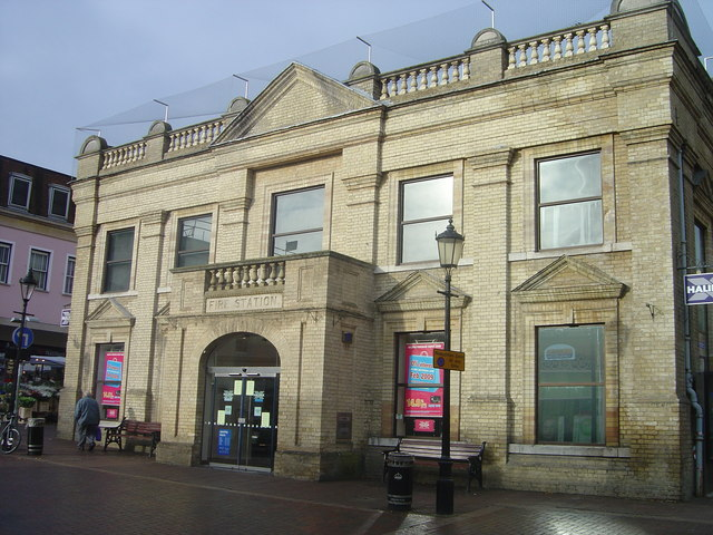 The town's second corn exchange Erected in 1836, but already too small by 1861 to suit the needs of the Bury St Edmunds corn merchants,(who simply put up a bigger one right next door) the building acquired a number of functions over the following years, including fire station, school of art and library.